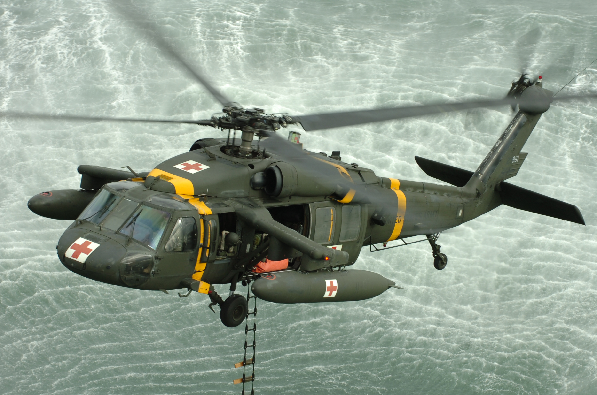 Story and photo by Cpl. Timothy N. Oberle, 2nd Combat Aviation Brigade Public Affairs HUMPHREYS GARRISON — Conducting an Overwater Personnel Recovery operation can be a tricky mission under normal conditions, but add high-speed winds and large waves to the equation and the exercise becomes much more difficult. In fact, if the weather conditions don’t allow for a 1,200-foot ceiling and at least three miles of visibility, the OWPR exercise is cancelled. In addition to visibility concerns, if the height of the waves where the operation is to take place is above eight feet, the first general officer in the chain of command must give his approval after examining the urgency of the mission. With conditions just under the acceptable levels, Soldiers from the 3rd Battalion, 2nd Aviation Regiment, 2nd Combat Aviation Brigade, or the “Dust-off” medical evacuation unit from Humphreys Garrison, conducted an OWPR just off of the western coast of Korea, near Kunsan Air Base.